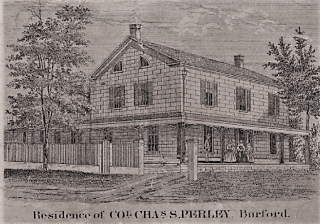 residence of Col. Charles S. Perley, Burford, Ontario